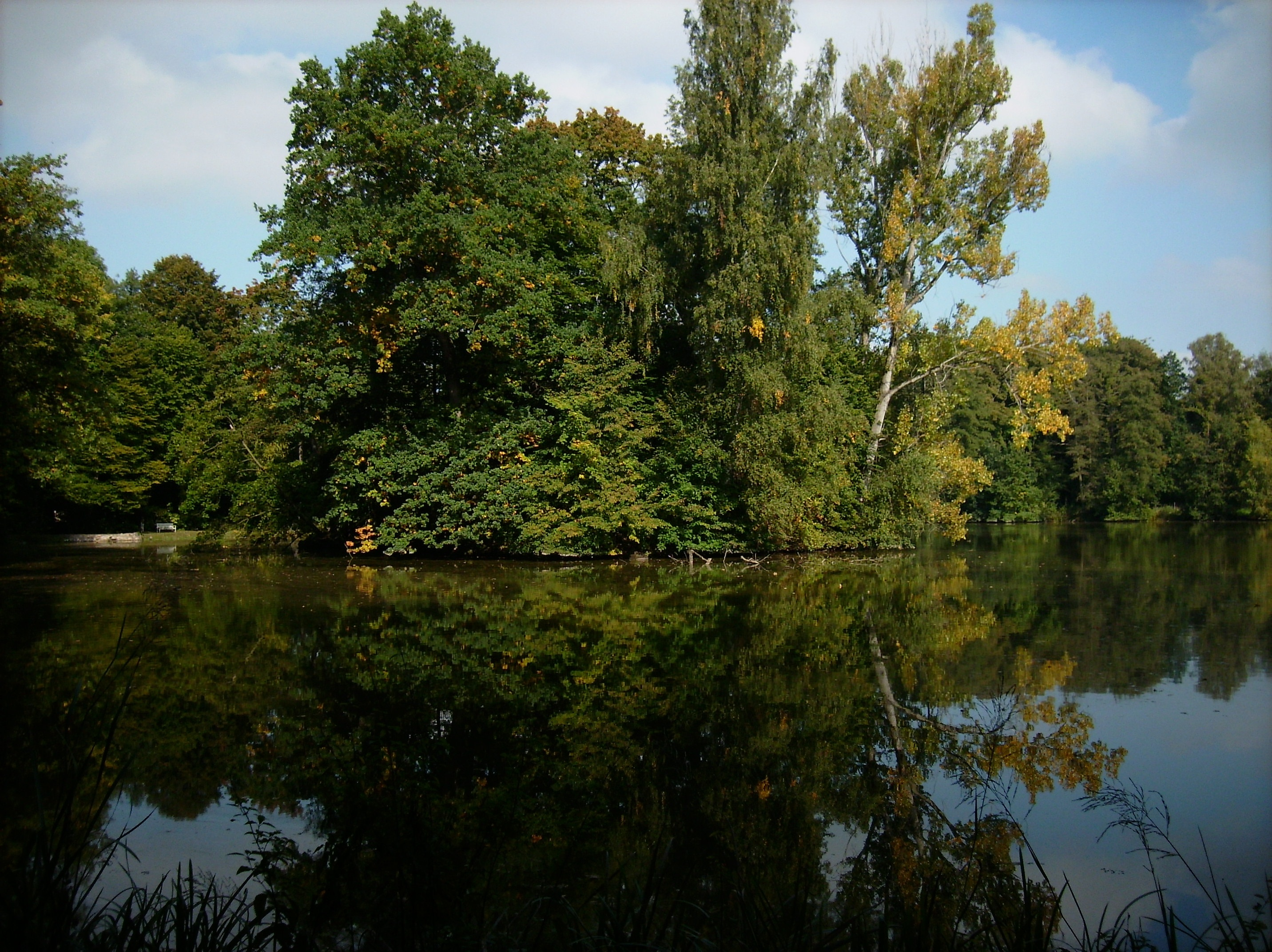 Elise's Pond in Grünfeld Park (Waldenburg, Zwickau district, Saxony)